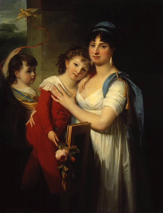 Jean-Laurent Mosnier. Portrait of Anna Muravyova-Apostol (1770-1810) with Her Son Mathew (1793-1886) and Her Daughter Catherine (1794-1849)